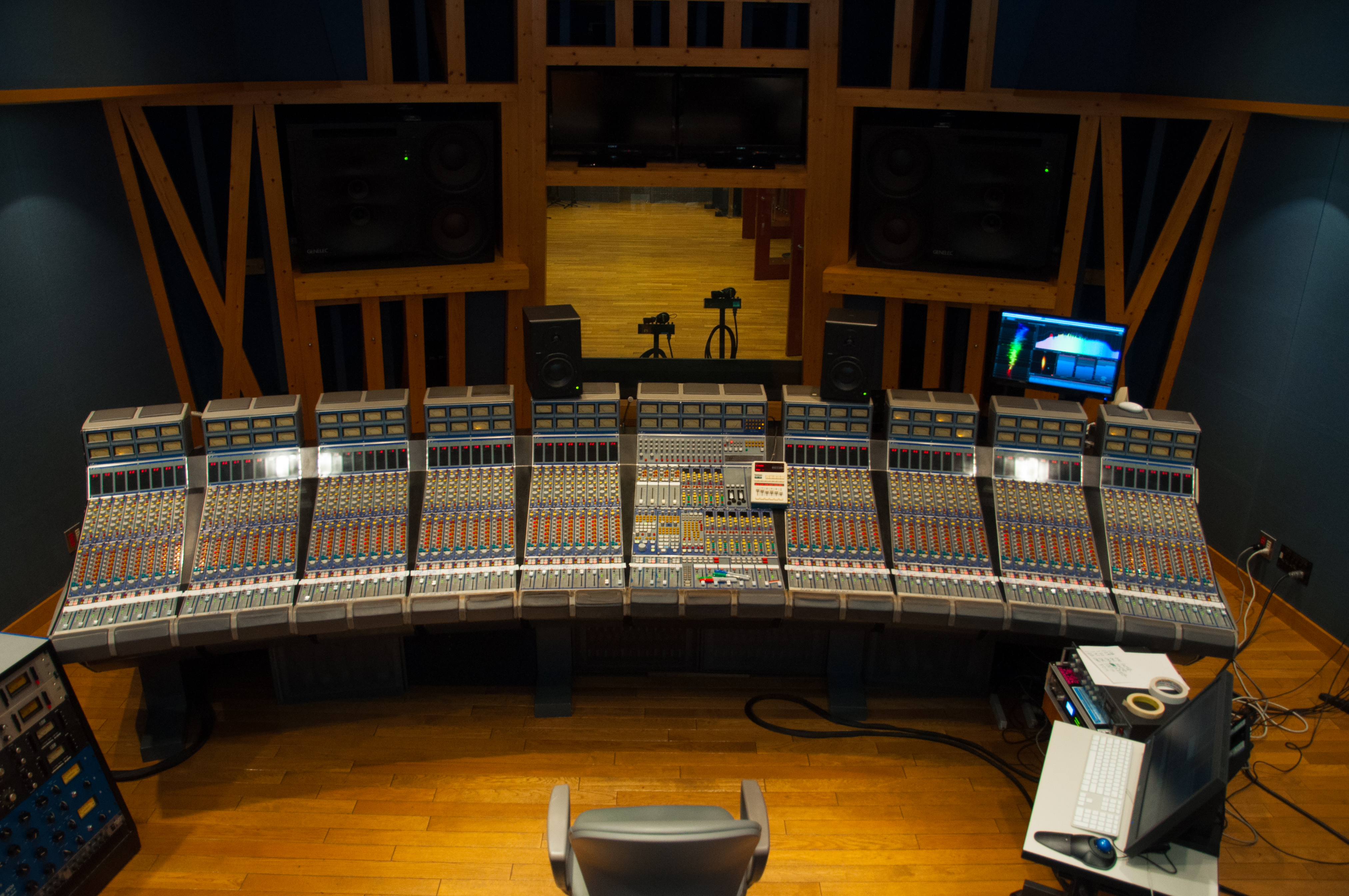 Focusrite Studio Console @ Sound City Setagaya DSC 1877